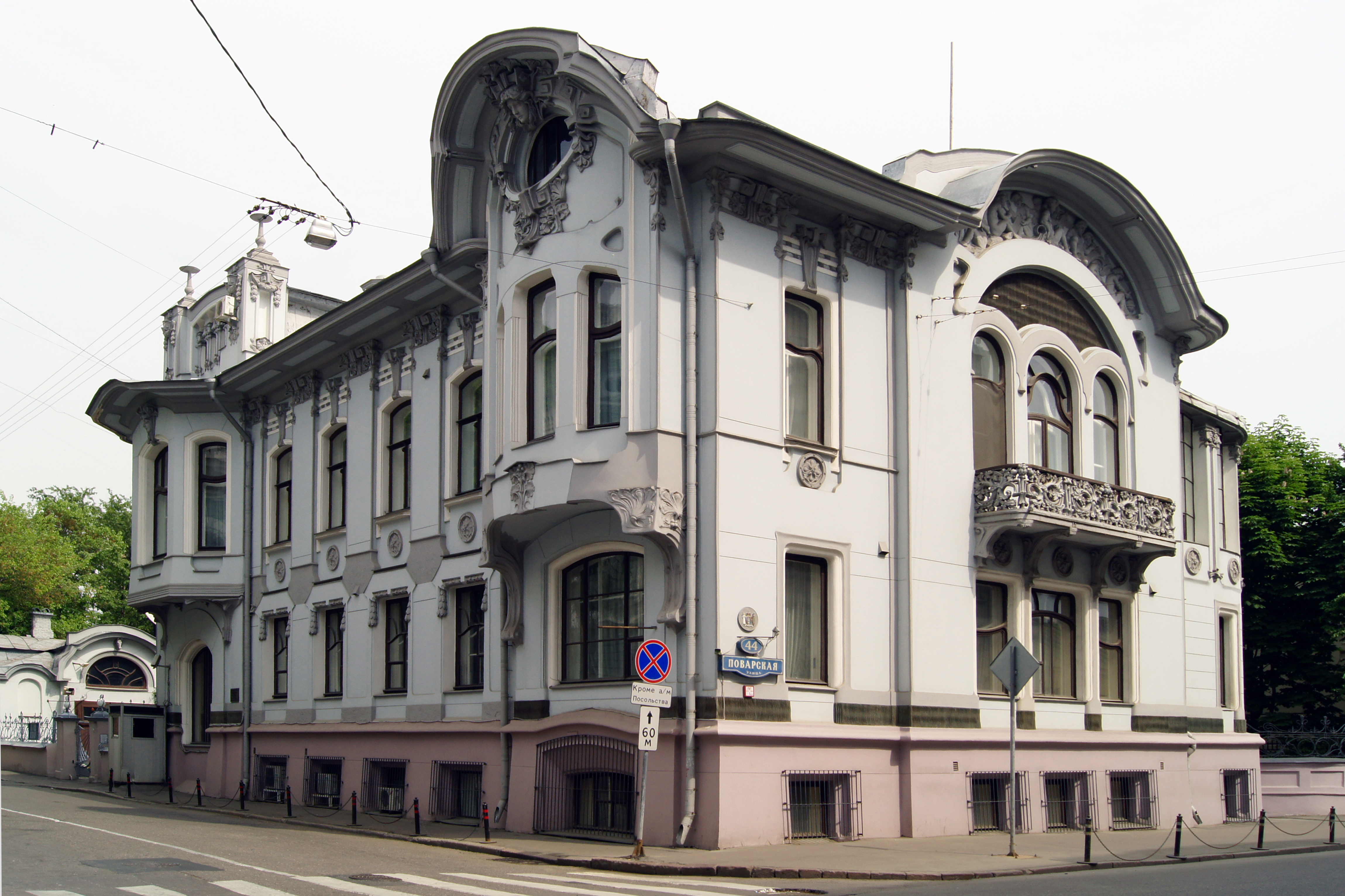 44/2 Povarskaya (Mindovsky House, later Embassy of New Zealand), Moscow by Lev Kekushev.